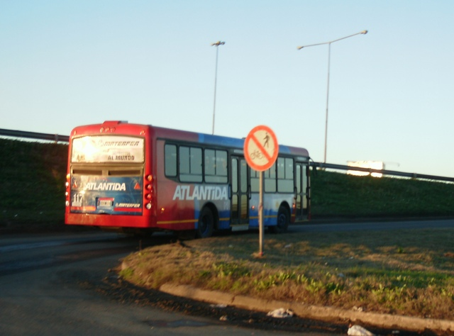 Materfer Águila bus (#117) with MTF BU1115LE chassis in Buenos Aires, Argentina. Built 2008. Colectivo, line 57, Transportes Atlántida S.A.C. operator.